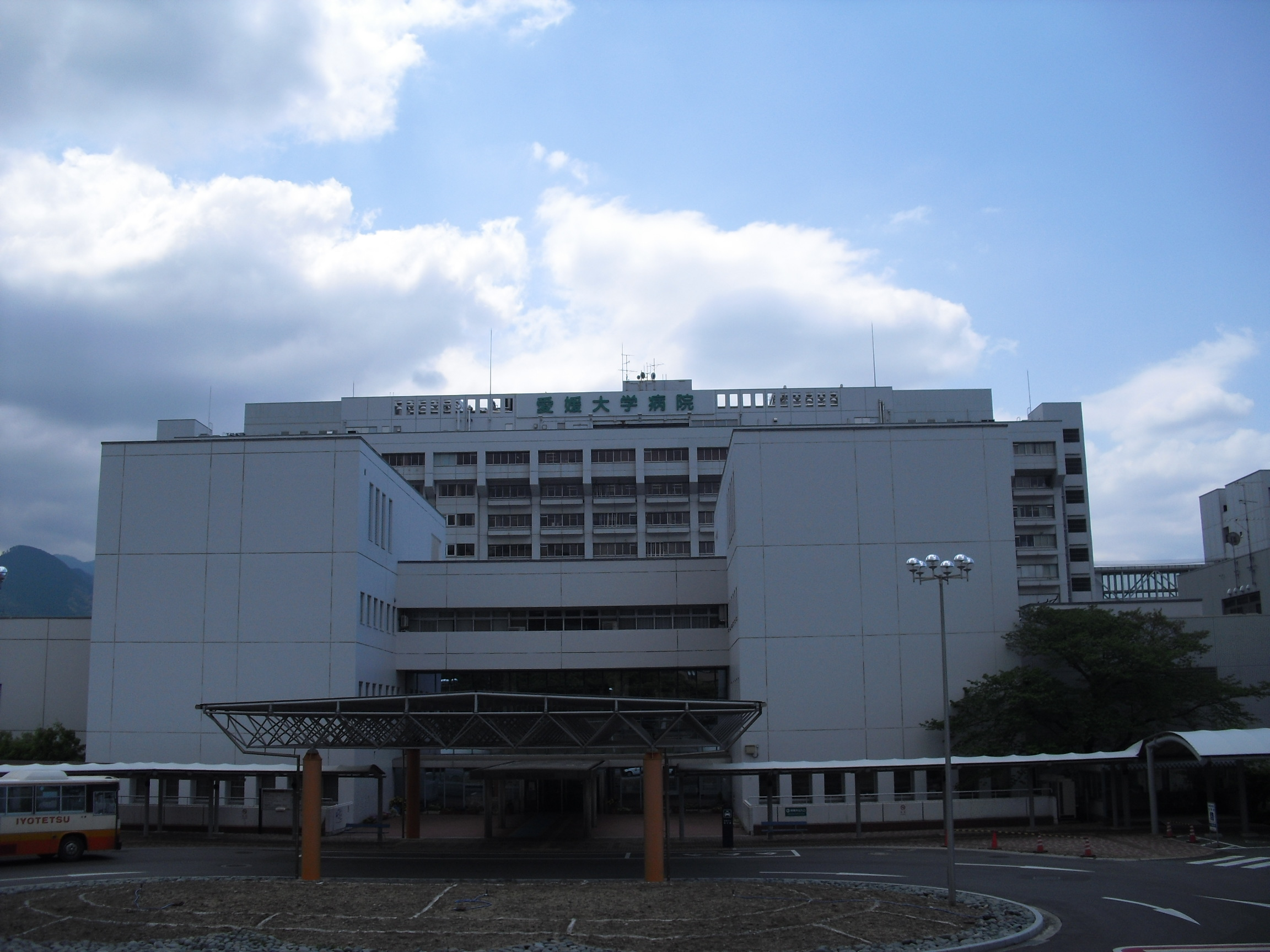 Ehime University Hospital